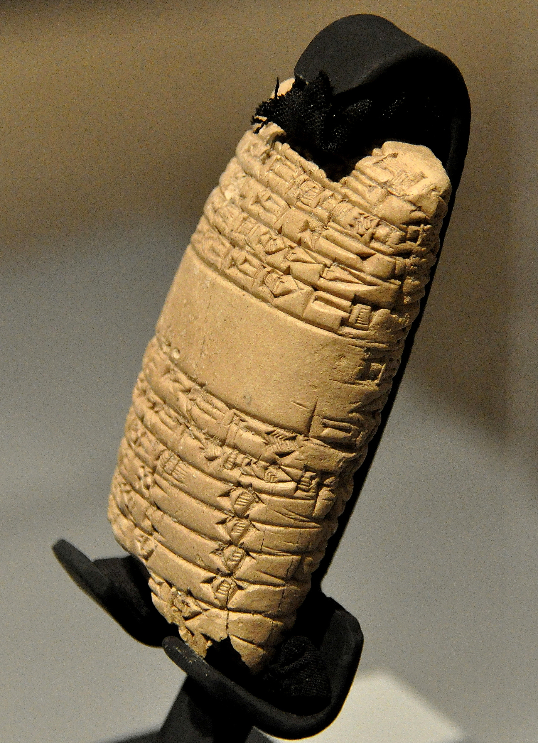 This tablet glorifies king Shulgi and his victories on the Lullubi people and it mentions the modern-city of Erbil and the modern-district of Sulaymaniayh. 2111-2004 BCE. The Sulaymaniyah Museum, Iraq.